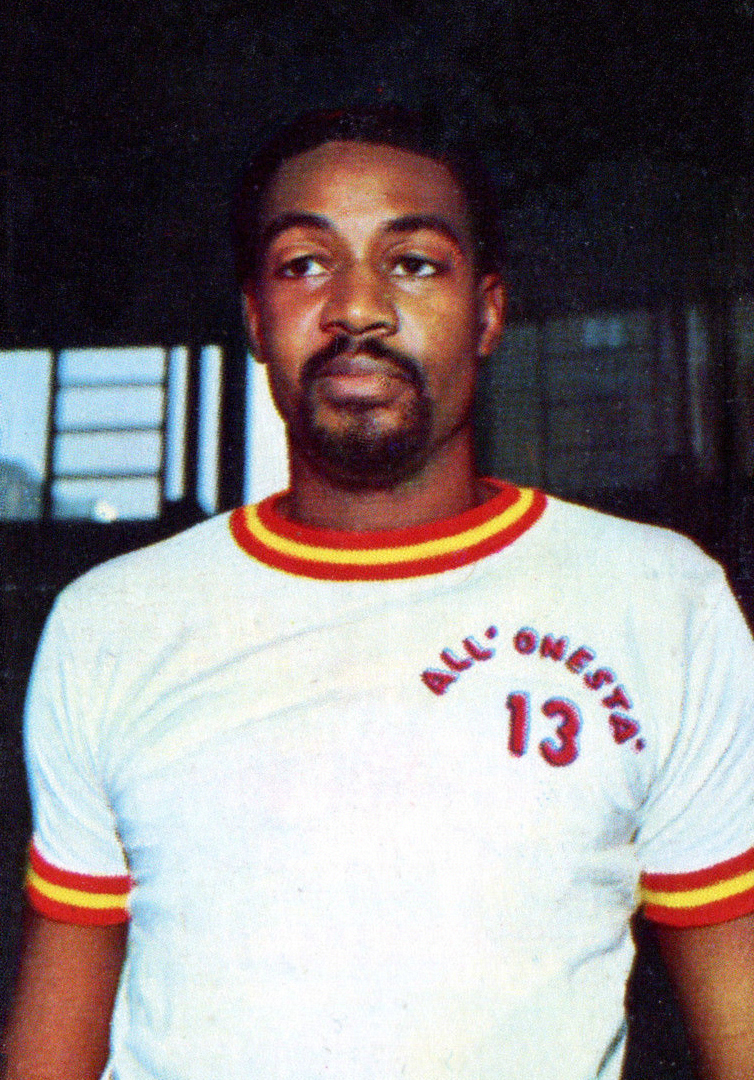 CAMPIONI DELLO SPORT 1969/70-n.314- W. ISAAC (USA)-PALLACANESTRO